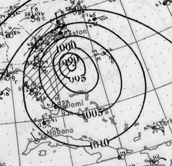 Surface weather map of former Hurricane Four on December 1, 1925